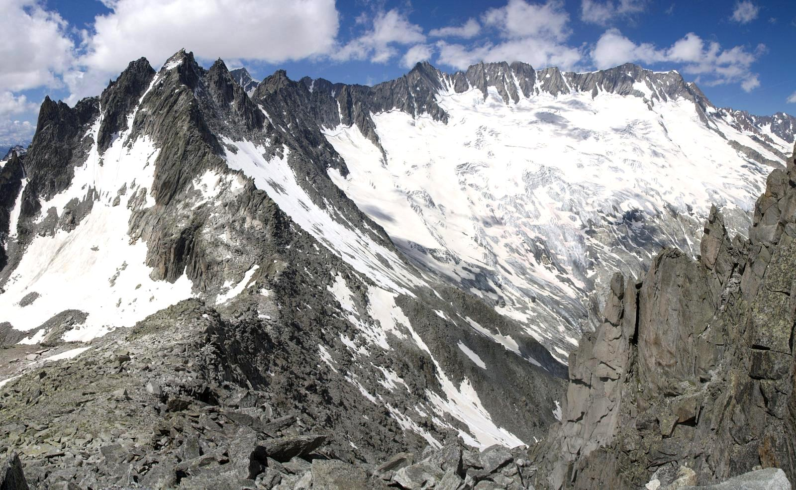 Dammastock